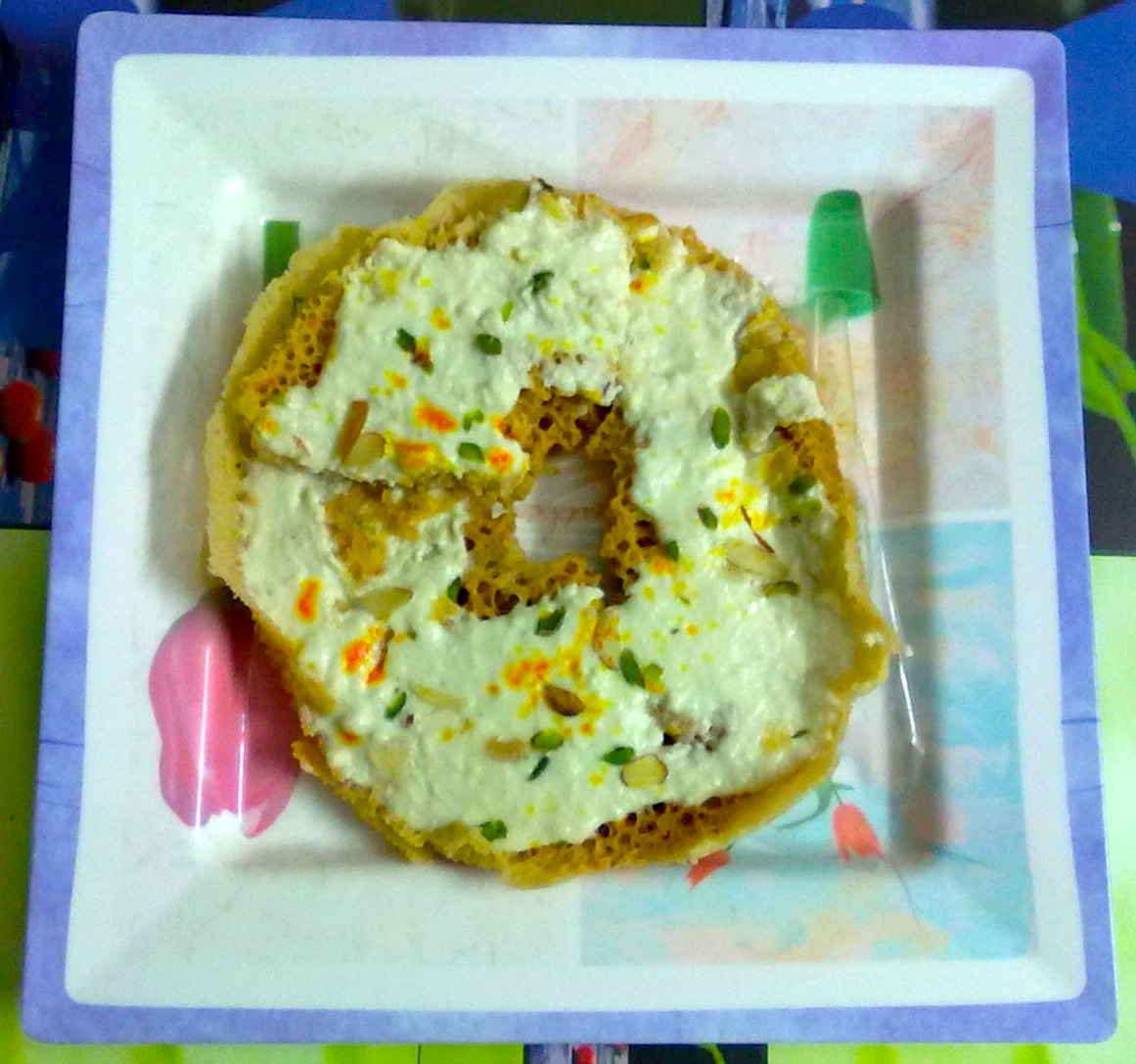 Ghevar is a famous Rajasthani and Gujarati sweet. It is traditionally associated with the Teej Festival of Rajasthan. Now it is available throughout India and is regarded as one of the traditional sweet cuisine from Western India.